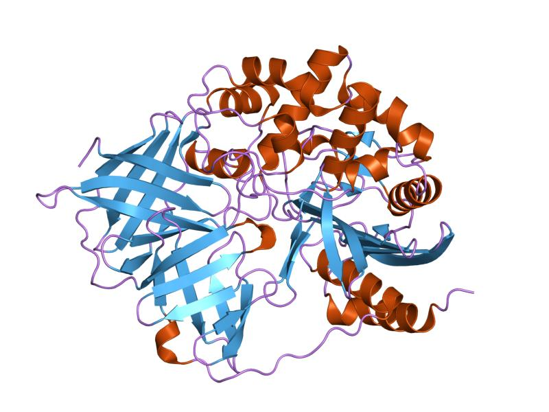 Cartoon representation of the molecular structure of protein registered with 1ei5 code.